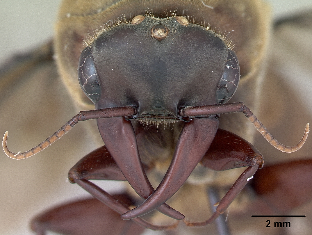 Head view of ant Dorylus wilverthi specimen casent0172860.